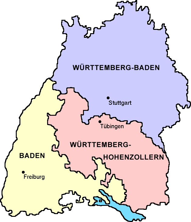 A map of the German state of Baden-Württemberg in its current borders and the three states that were merged into it in 1952, with the respective capitals: blue is Württemberg-Baden, yellow (Süd-)Baden, red Württemberg-Hohenzollern. (The light blue area to the south is the Bodensee.) Map was produced by myself, reference was a small image in a publication by the Bundeszentrale für politische Bildung, a federal bureau which releases books and other media for educational purposes. Württemberg-Baden (Q251660) Baden (Q261407) Württemberg-Hohenzollern (Q262733) Lake Constance (Q4127)